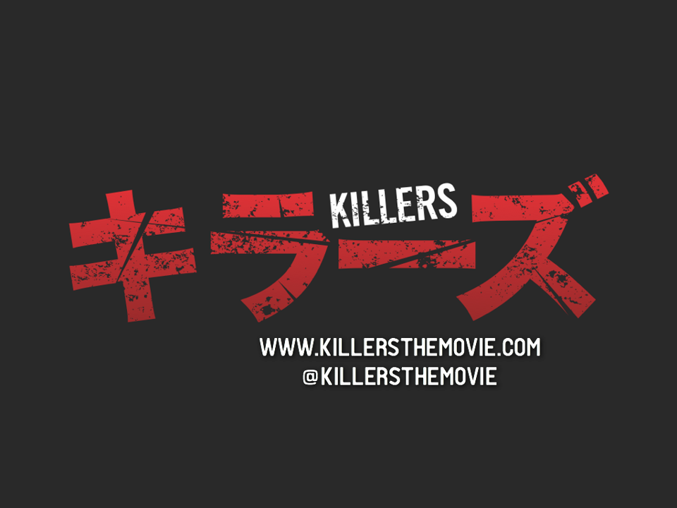 A film production by The Mo Brothers